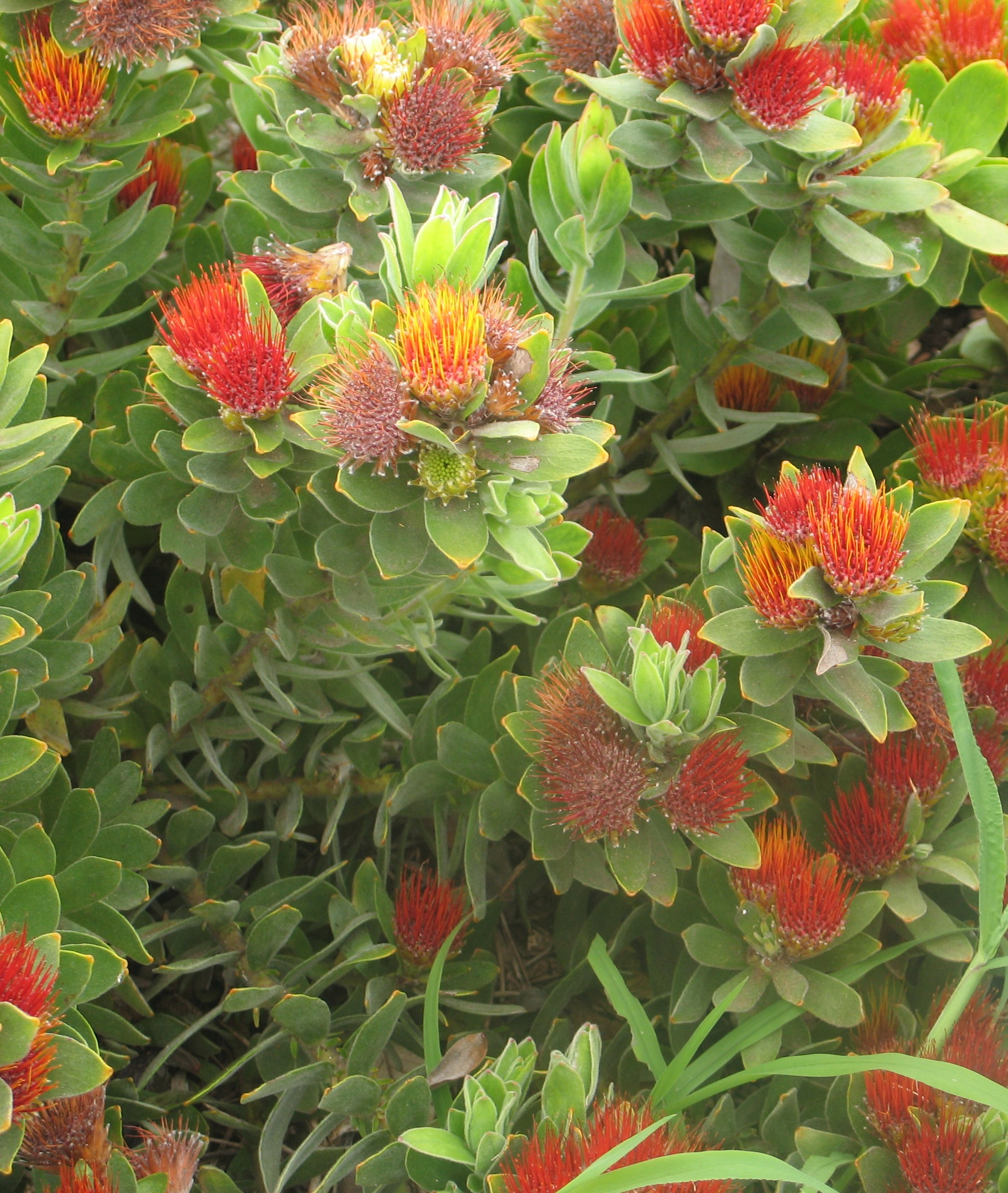 Cape Town 2006 Andrew Massyn